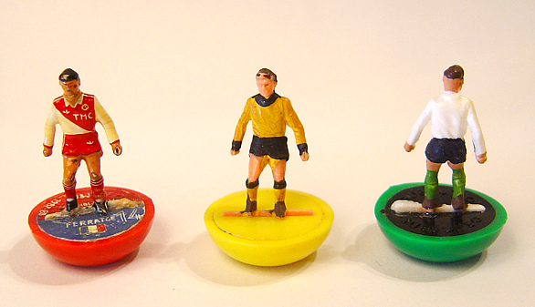 Subbuteo Heavy weight players from the late 1970s.